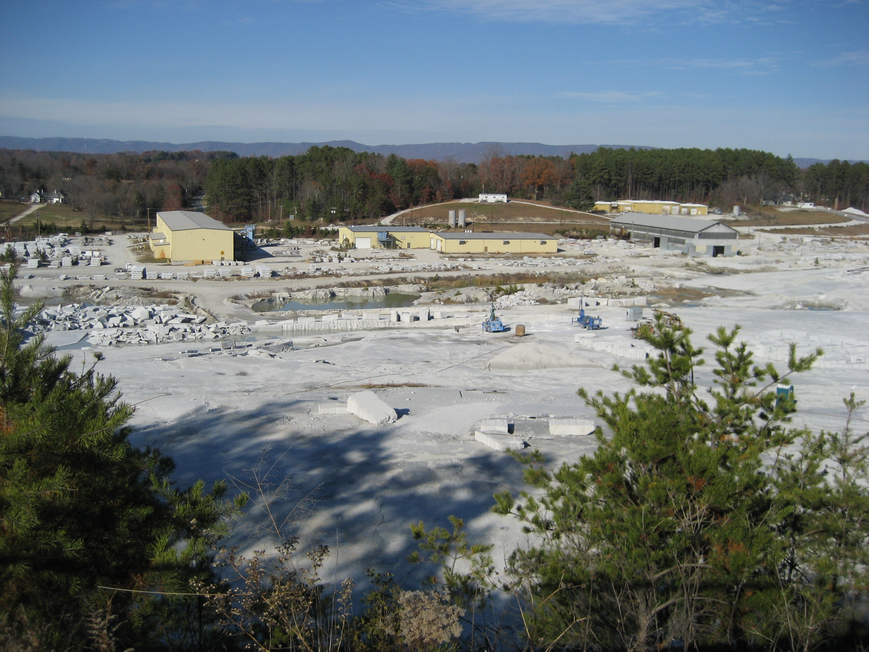 Granite quarry near Mt. Airy, North Carolina, USA